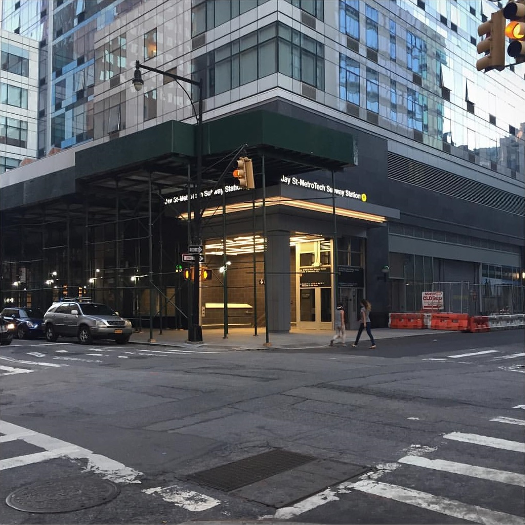 Shiny new subway entrance